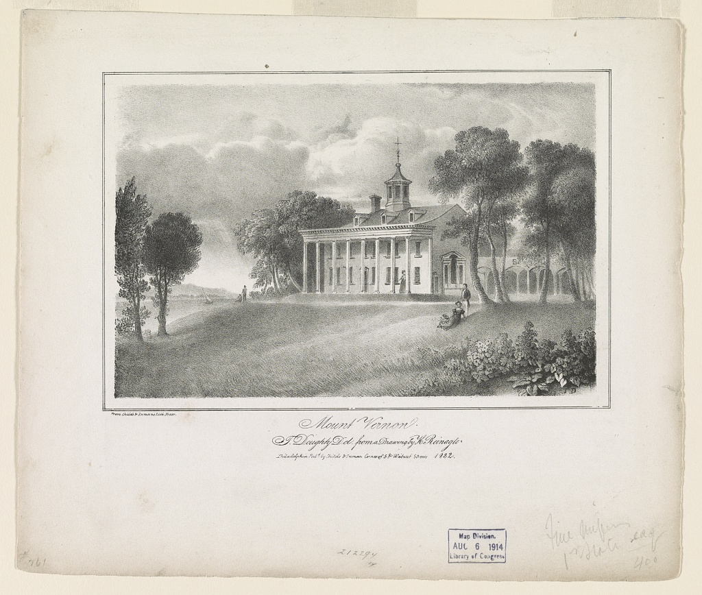 Title: Mount Vernon / T.D. ; T. Doughty del. from a drawing by H. Reinagle. Abstract/medium: 1 print : lithograph ; 25.5 x 30 cm (sheet)